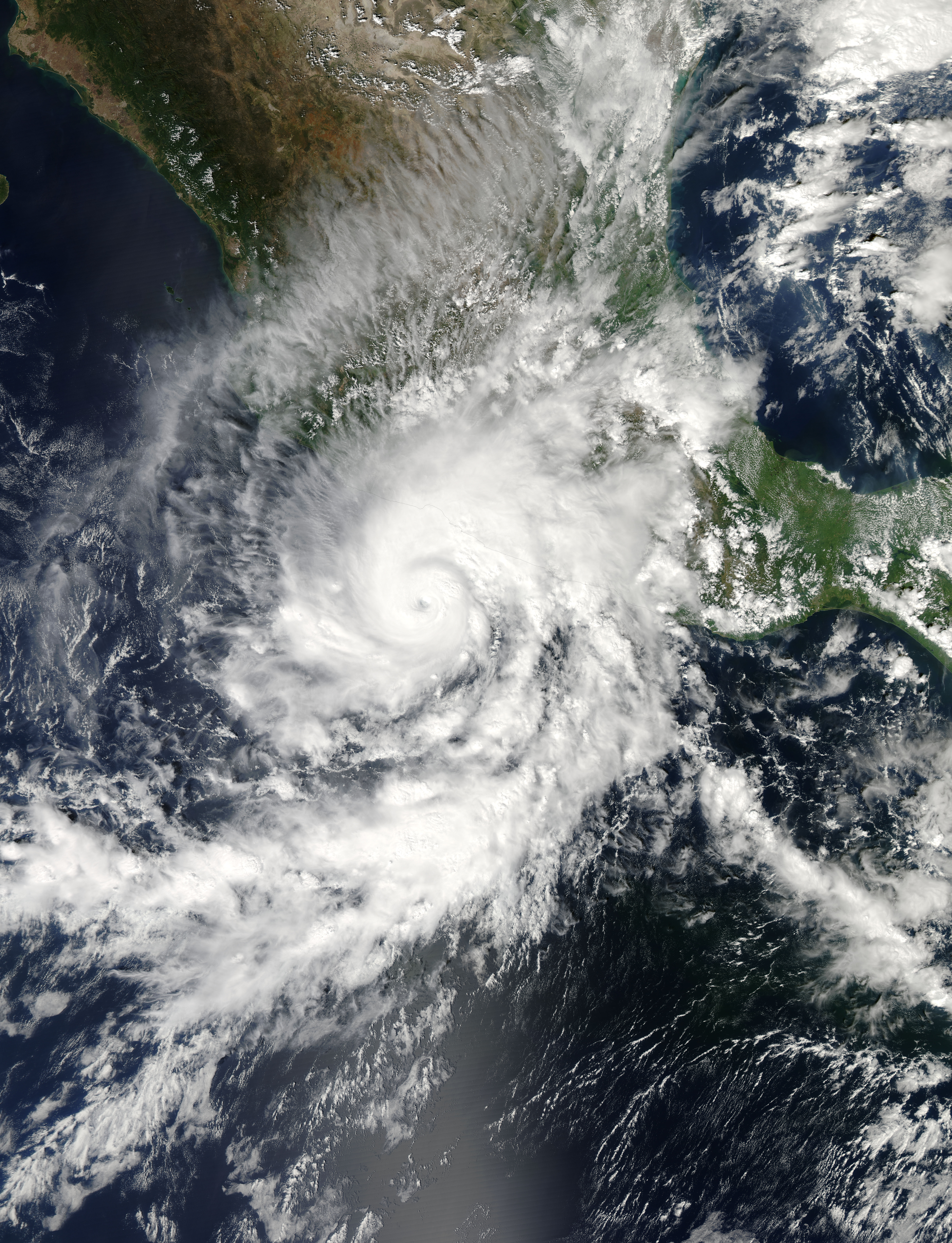 Hurricane Raymond was at its strongest when the Moderate Resolution Imaging Spectroradiometer (MODIS) on NASA’s Aqua satellite acquired this image at 3:10 p.m. on October 21, 2013. The Category 3 storm had sustained winds near 195 kilometers (120 miles) per hour as it spun off Mexico’s western shore. Though Raymond was not forecast to come ashore, it poses a threat to flood-weary Acapulco and nearby communities. The storm’s outer bands are circulating over coastal regions, unleashing heavy rain. Since Raymond is stalled offshore, the rain has persisted since Saturday. From Saturday to Monday, Acapulco received 5.67 inches of rain, reported Jeff Masters. The same region flooded in September when Tropical Storm Manuel came ashore. Raymond is expected to move west away from Mexico on Wednesday, October 23.